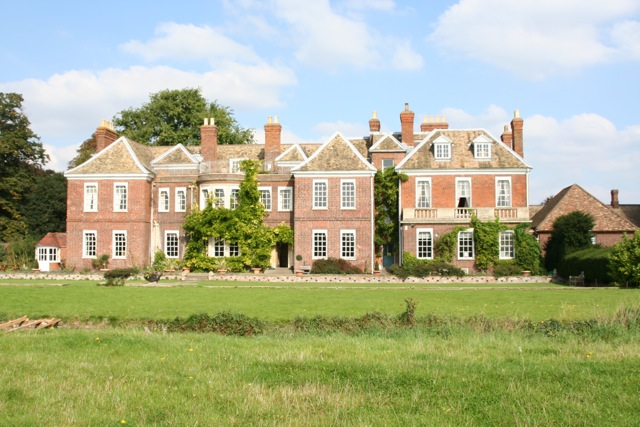 Anstey Hall Surprisingly beautiful house unnaturally close to the Waitrose car park less than 100 yards east.